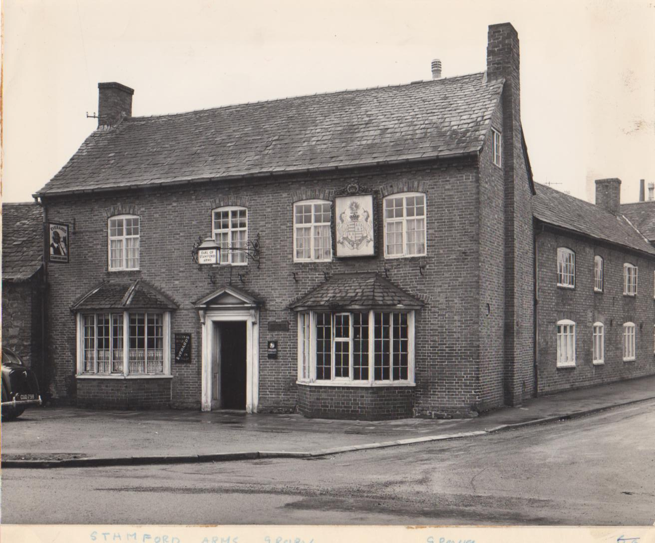 Stamford Arms Groby, former home of Everard family after conversion to a pub.